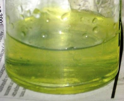 Plastic container with gas oil, a mixture of hydrocarbons with a boiling point of 180 C